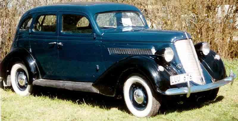 Nash Advanced Six Series 3520 4-Door Sedan 1935